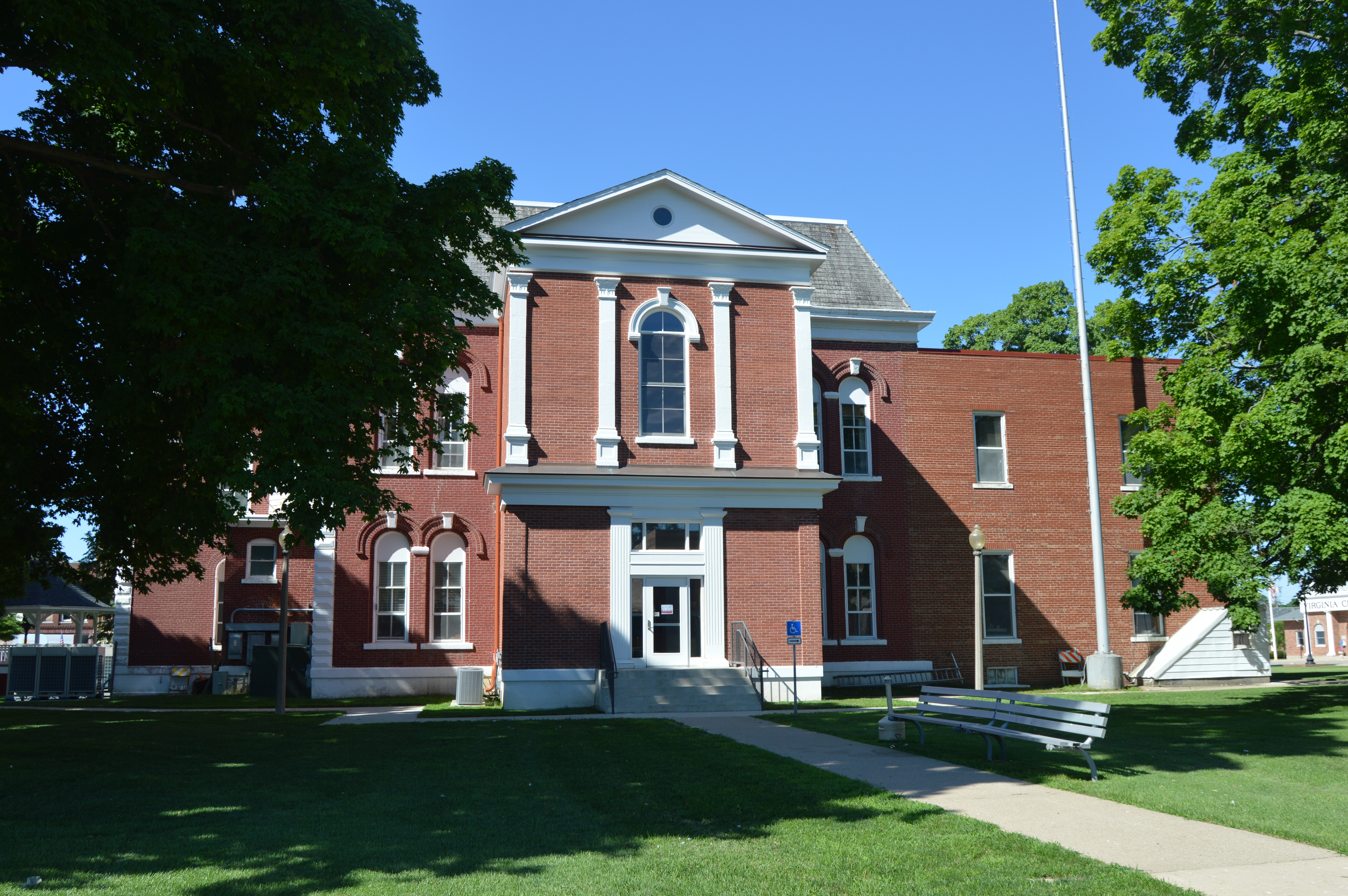 Front of the Cass County Courthouse, located on Courthouse Square in Virginia, Illinois, United States. It was built in 1875.